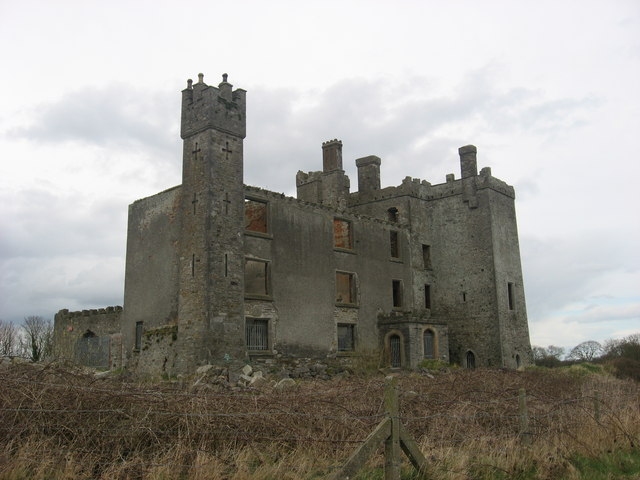 Athcarne Castle, Co. Meath Medieval tower with a large extension and turret added c. 1830, all now ruinous. Home of the Bathe family, various members of which became Lord Chief Justice, Attorney General and Chancellor of the Exchequer in the late middle ages. Castle was inhabited into the mid-20th century.